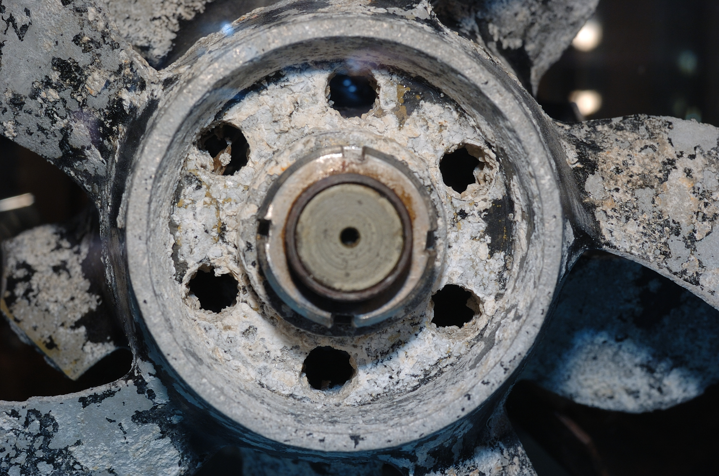 A scallop shell fragment attaching precipitates on its edge was found inside one of screw hub holes in this photo.